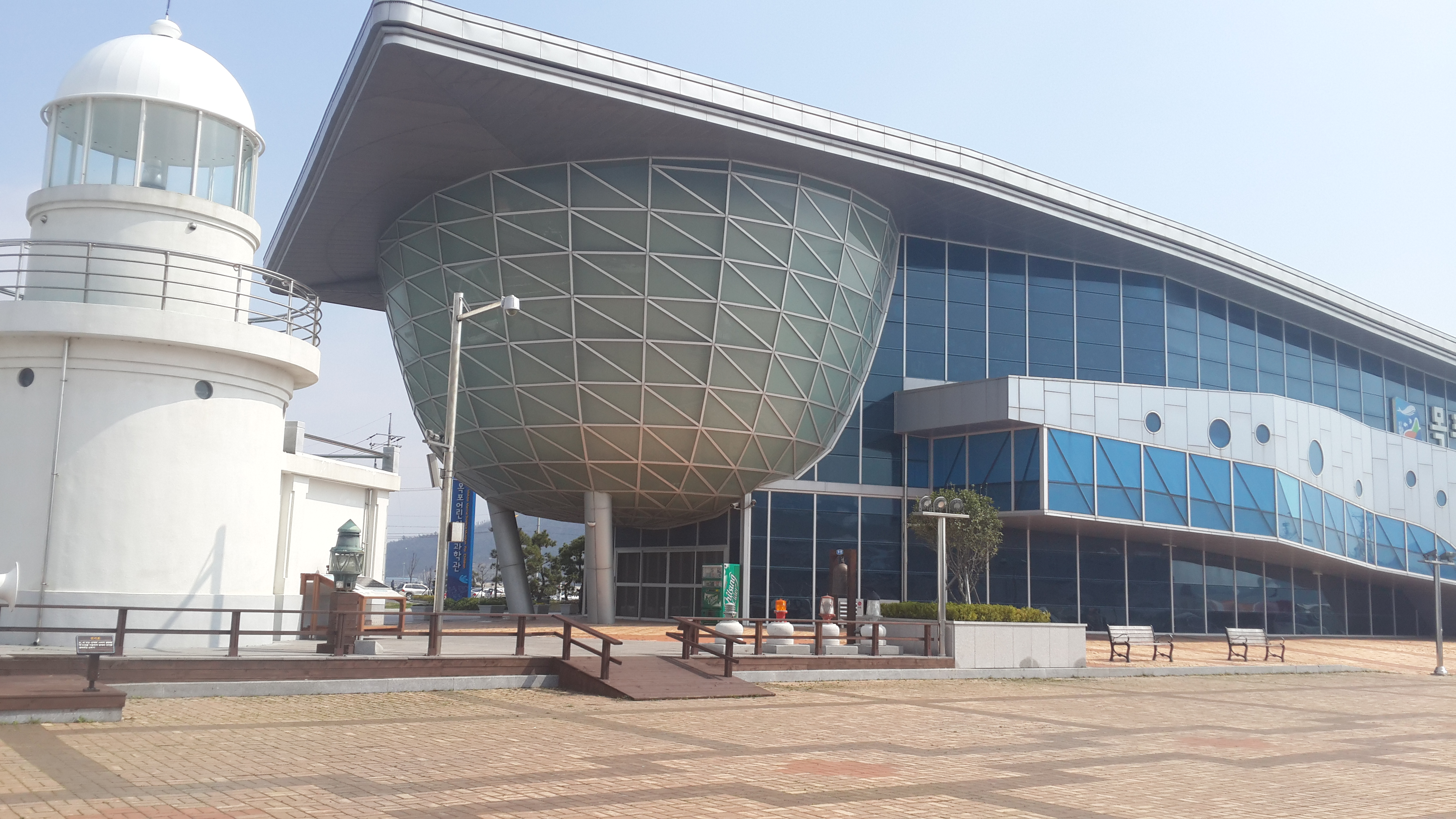 The building of Mokpo Marine Science Museum for children in Mokpo, Jeollanam-do, South Korea.